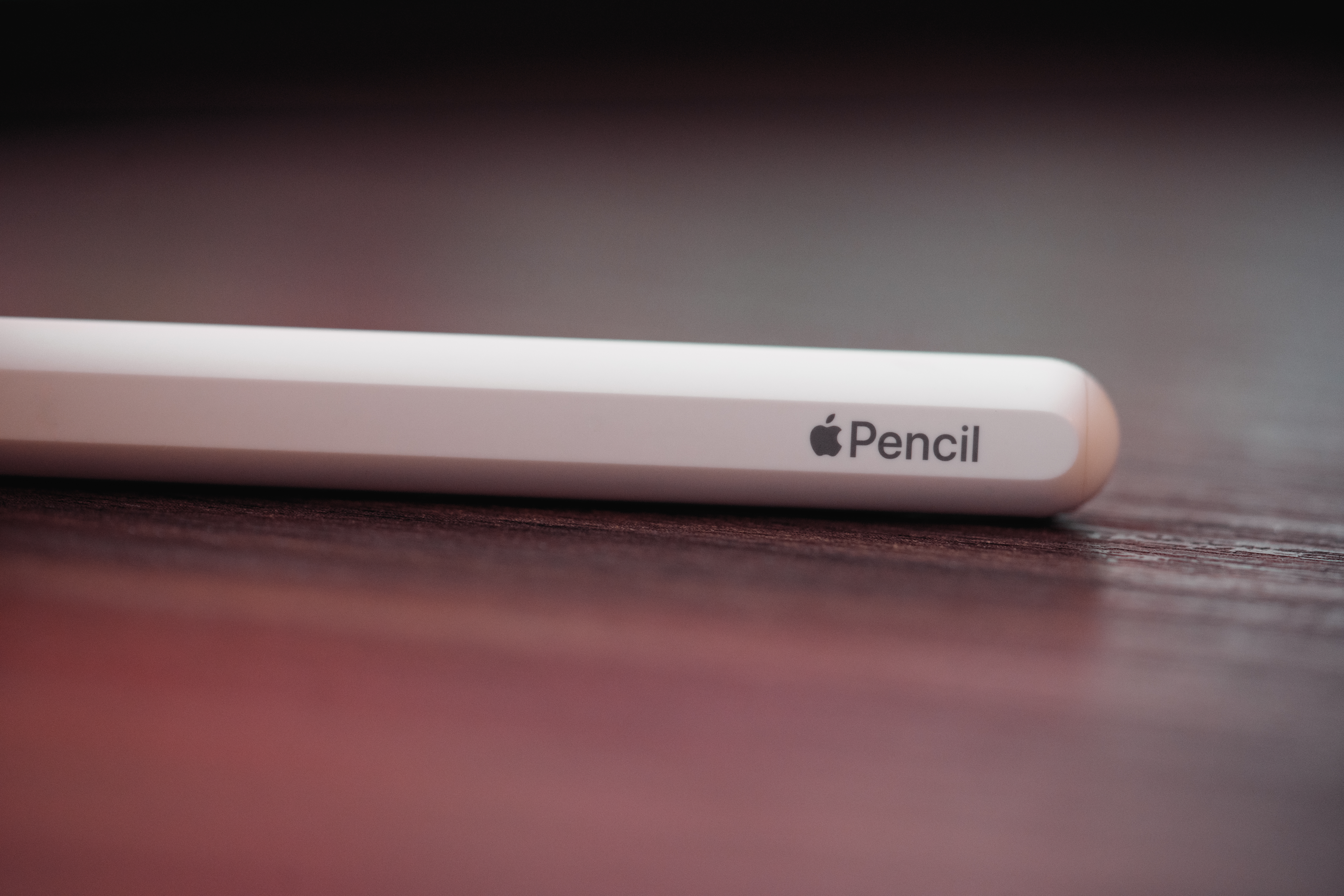 The Apple Pencil digital stylus for the iPad Pro tablet.